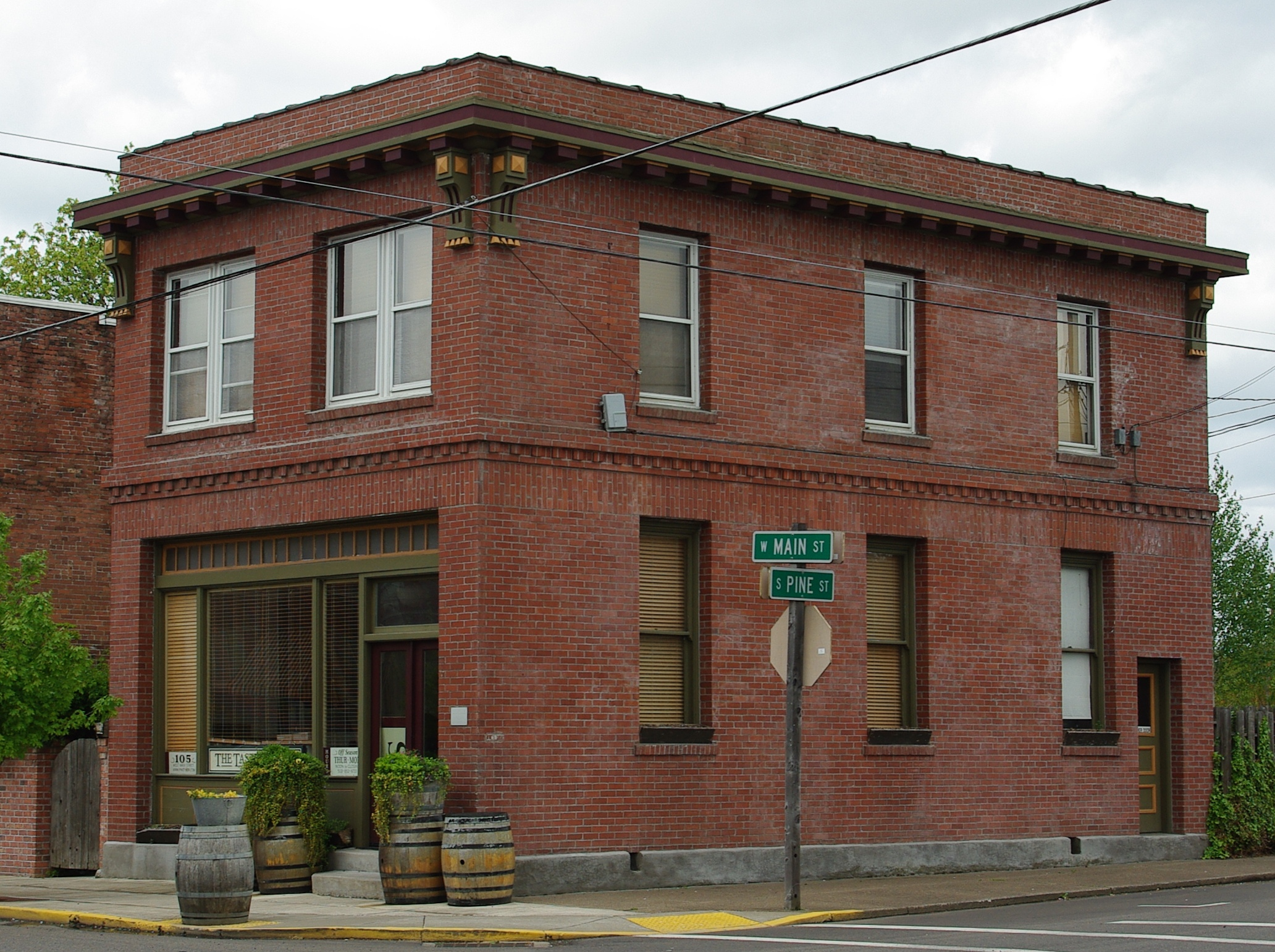 Carlton State and Savings Bank building in Carlton, Oregon, USA. Now houses The Tasting Room